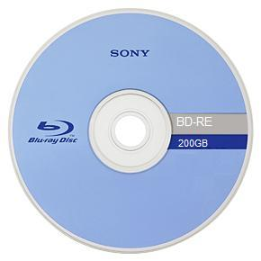 Front side of a Sony 200GB BD-RE disc.